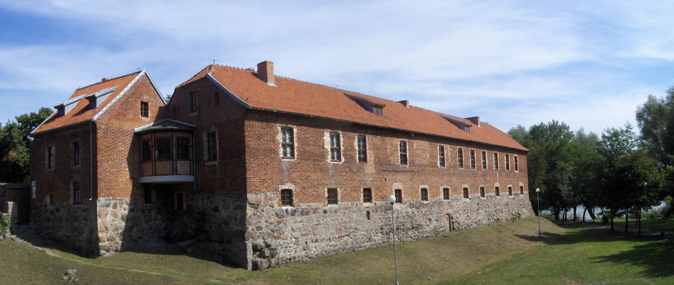 Castle in Sztum/Poland